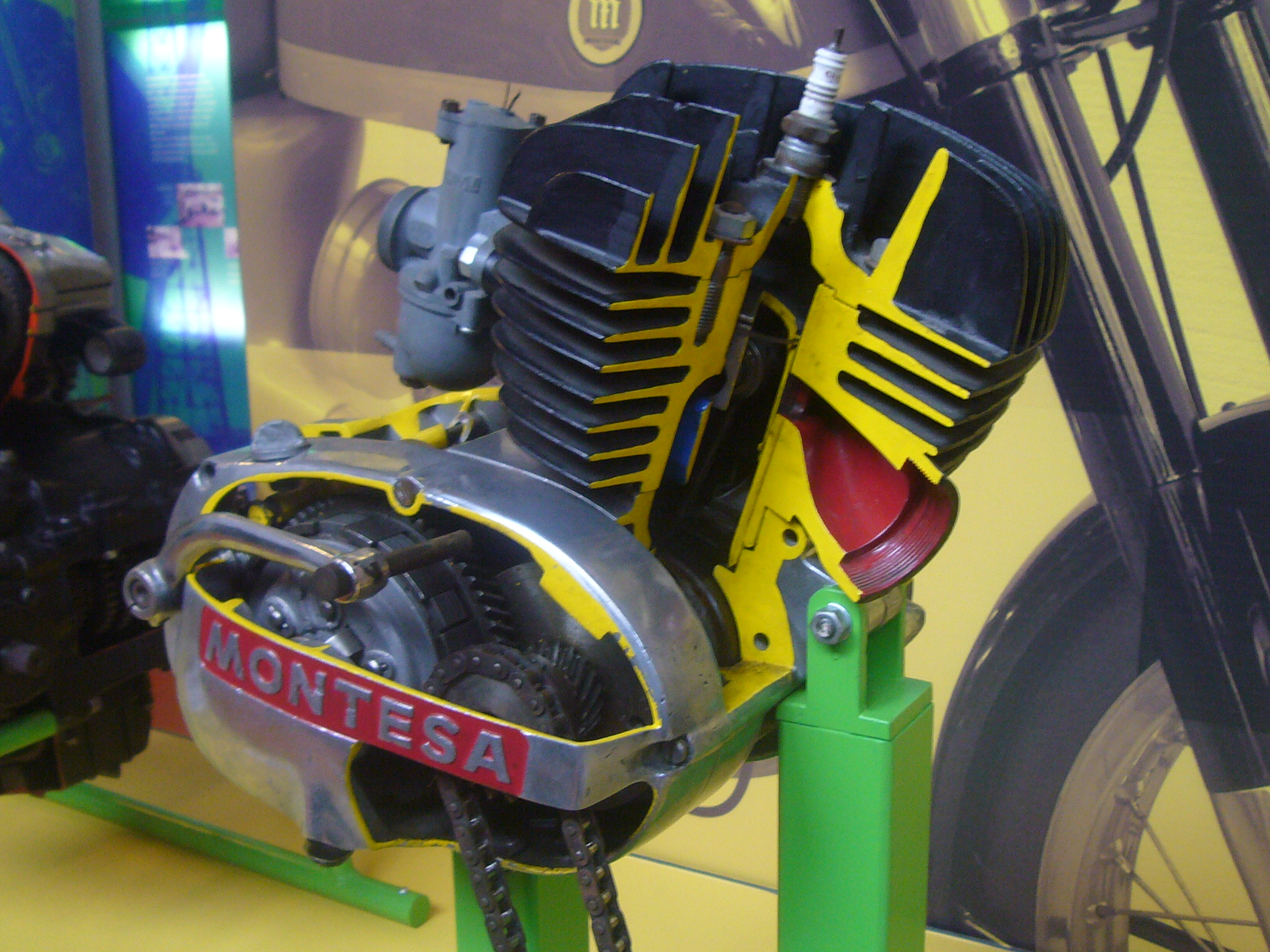 Montesa motorcycle engine